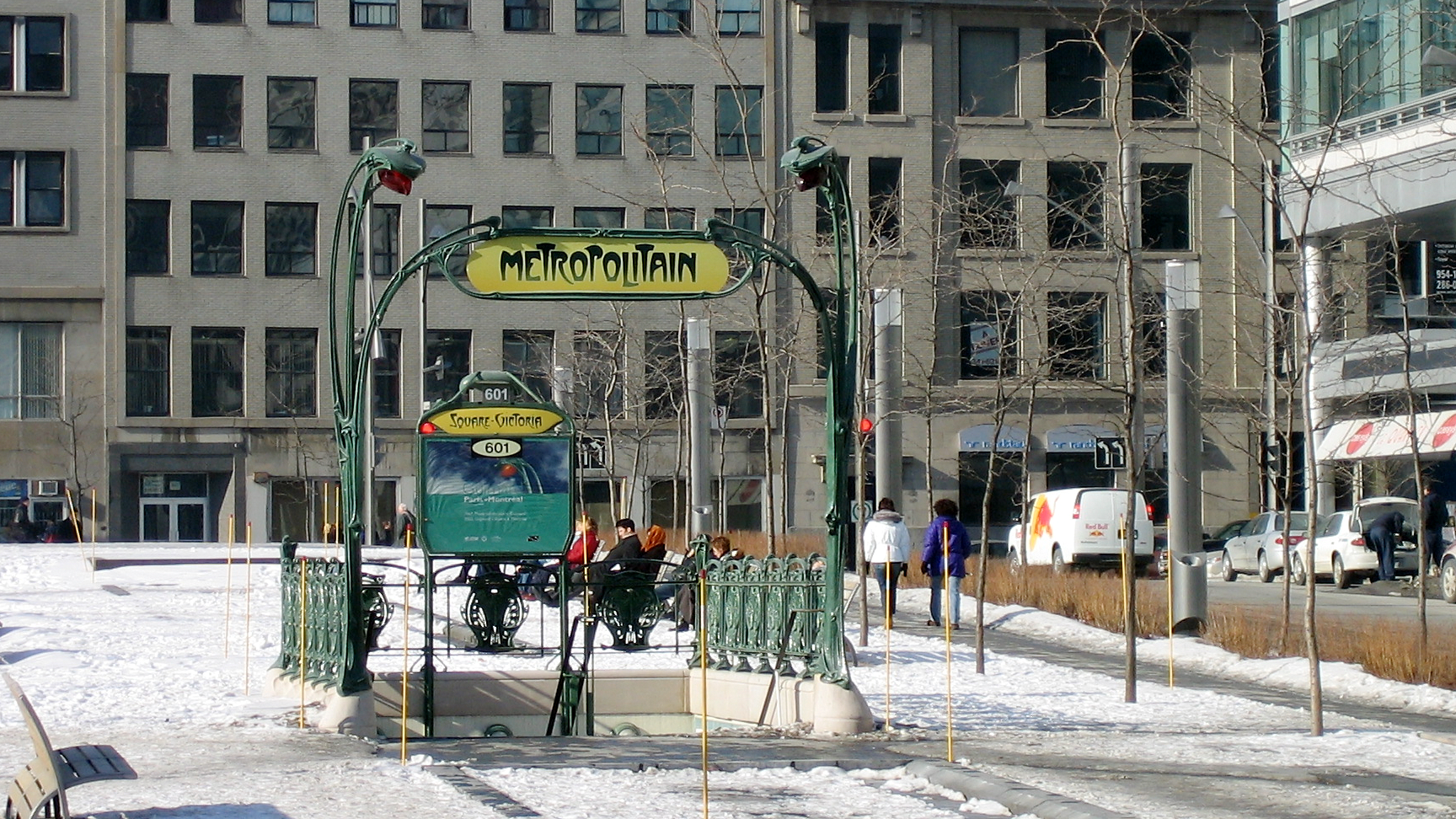 Montreal, Square Victoria Metro Station, Metropolitain Exit by Denis Jacquerye